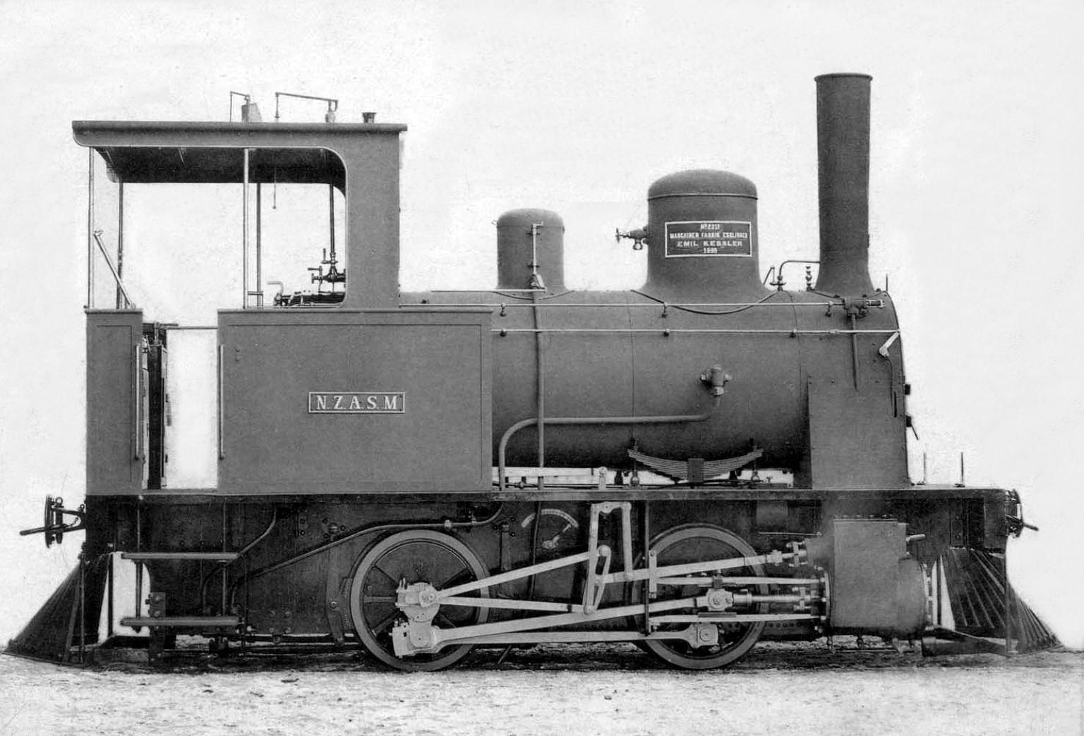 NZASM 13 Tonner 0-4-0T